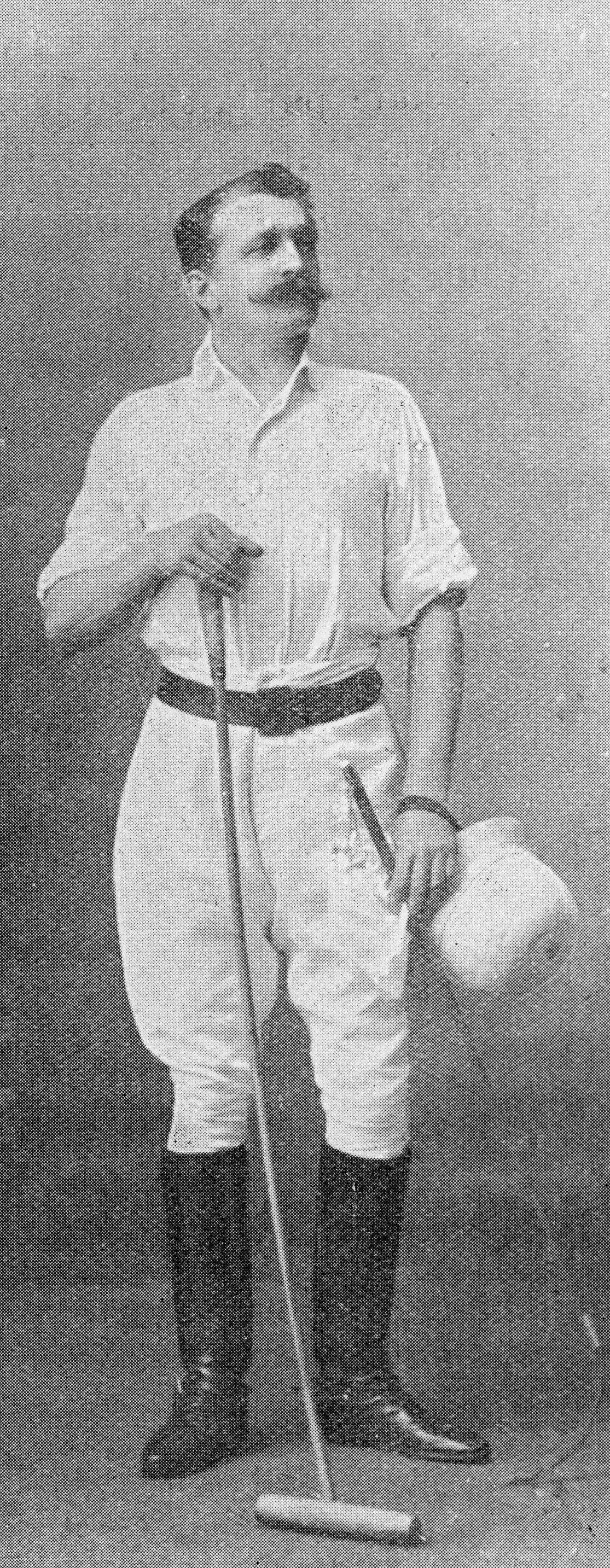 Book by Pierre de Coubertin